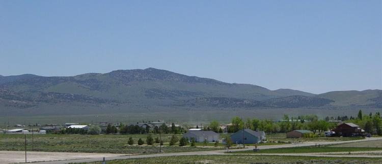 Photo taken by Daniel Mayer and released under terms of the GNU FDL.